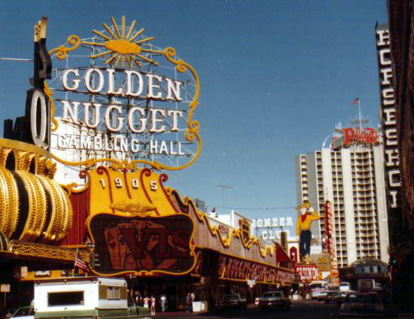 Fremont Street — in Downtown Las Vegas in 1983. With the former neon signs of the Golden Nugget Casino on the left, and neon Vegas Vic cowboy in distance.